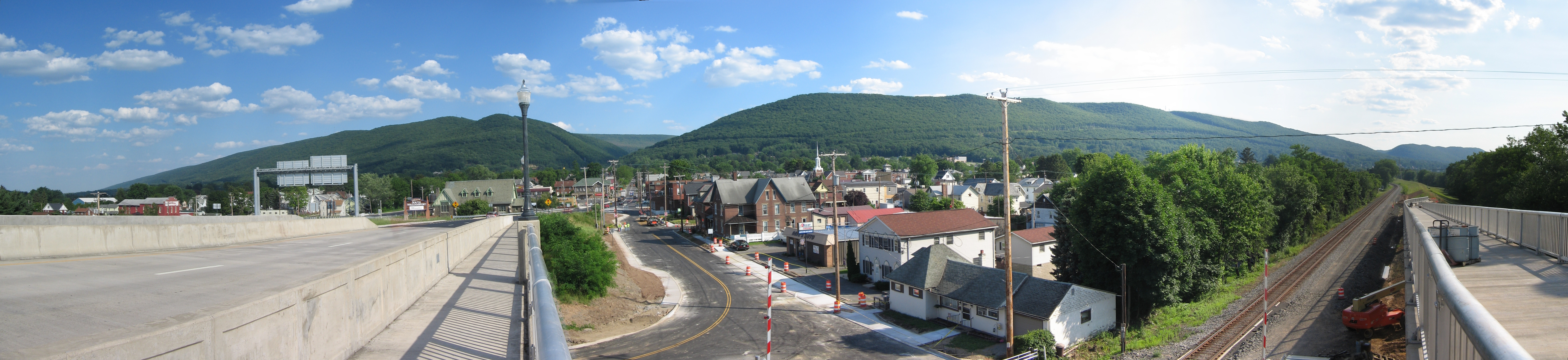 Panorama of South Williamsport, Pennsylvania looking south from the Market Street Bridge (on left). Bald Eagle Mountain is in the background and the pedestrian ramp to the bridge and NS railroad tracks are on the right. Originally 12 vertical photos, This panoramic image was created with Autostitch. Stitched images may differ from reality.